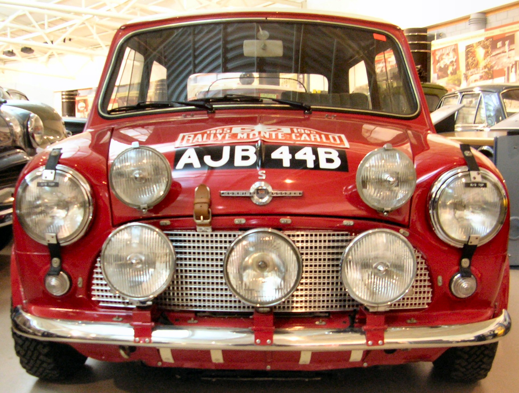 A 1964 Mini Cooper S. This car, which was one of the cars prepared by the BMC competitions department, won outright victory in the 1965 Monte Carlo. It was crewed by Timo Makinen and Paul Easter. This vehicle is kept at the British Motor Museum, Gaydon, UK.